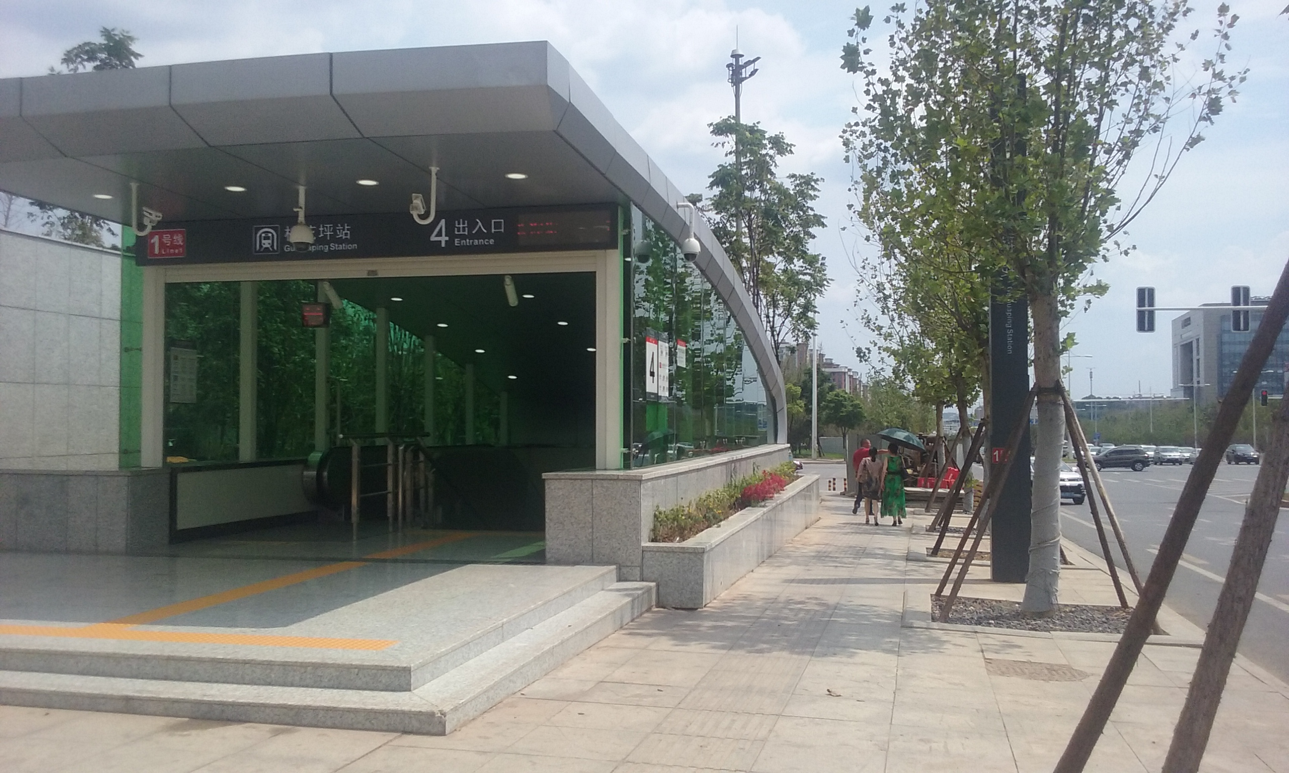 Entrance No.4 of Guihuaping Station